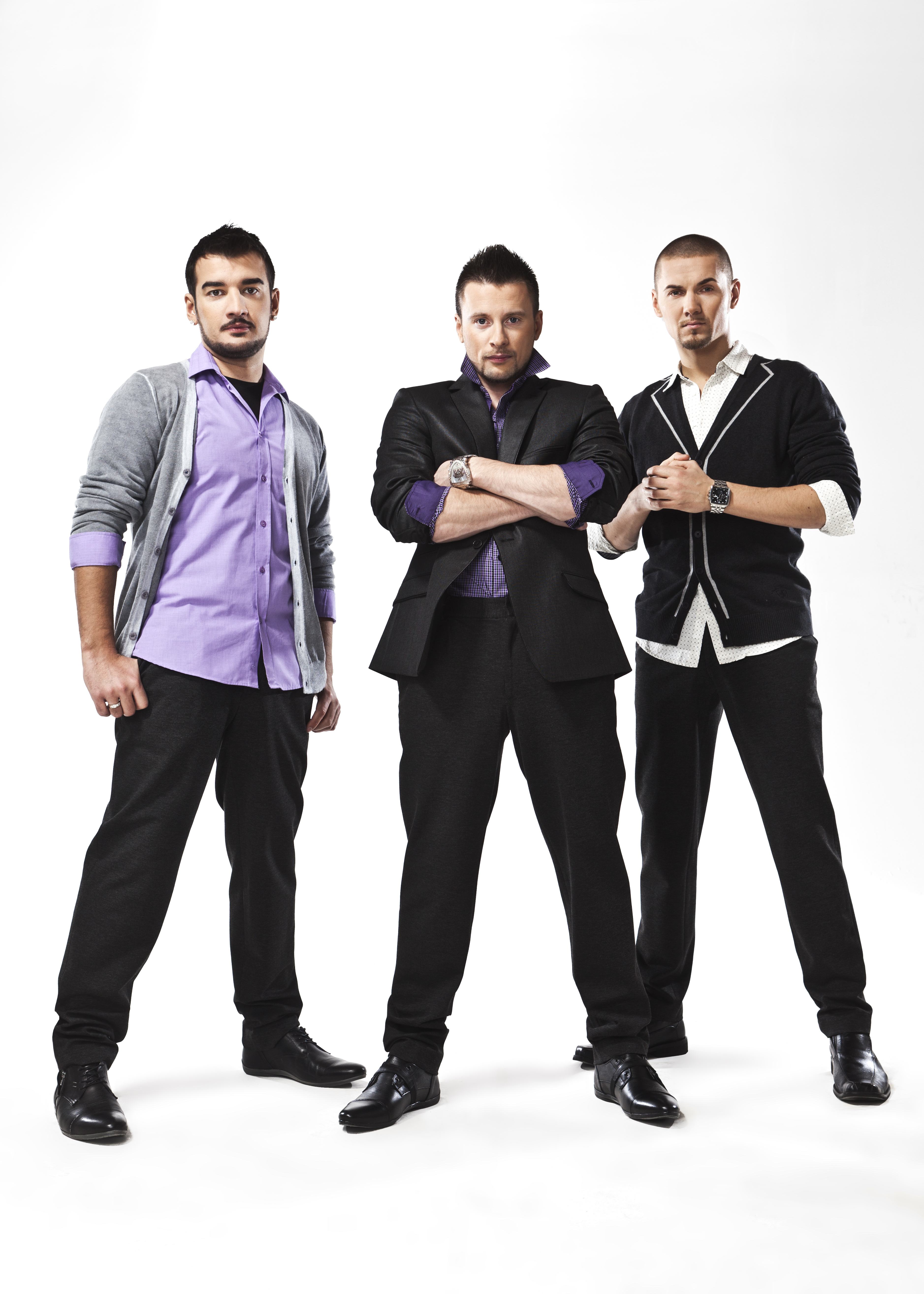 Soul Militia (Kaido Põldma, Semy Morgun & Lauri Pihlap)